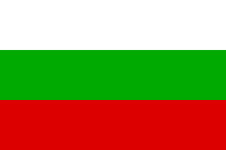 flag of san ignacio guasú, a city in the department of misiones in Paraguay